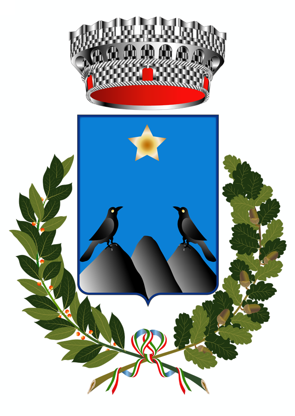 Coat of arms of Collecovino (Pescara), Italy